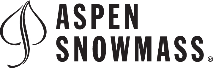 This is the official Aspen Snowmass stacked logo.